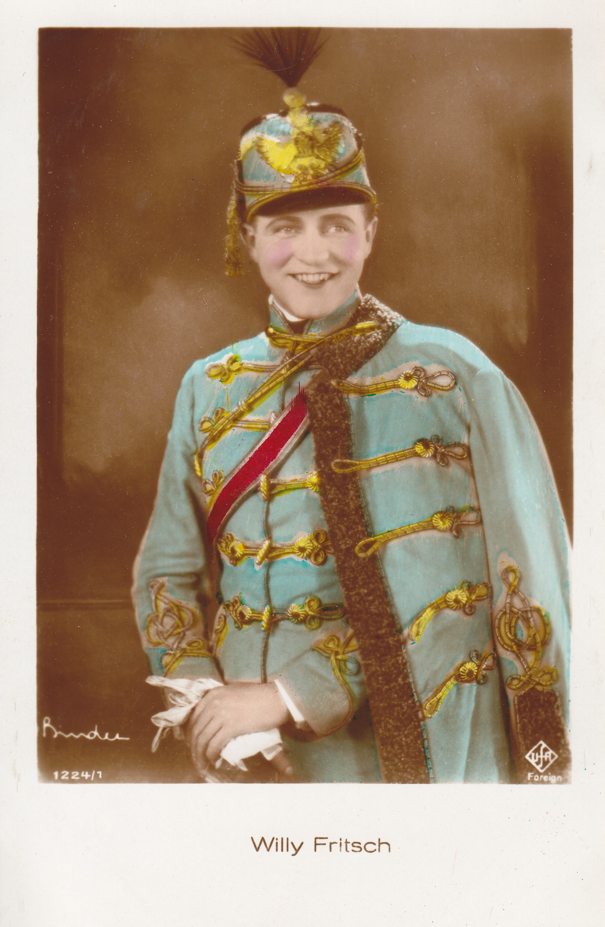 Willy Fritsch (German theater and film actor, 1901-1973). Coloured, 15 x 11 cm. Ross Verlag 1224/1